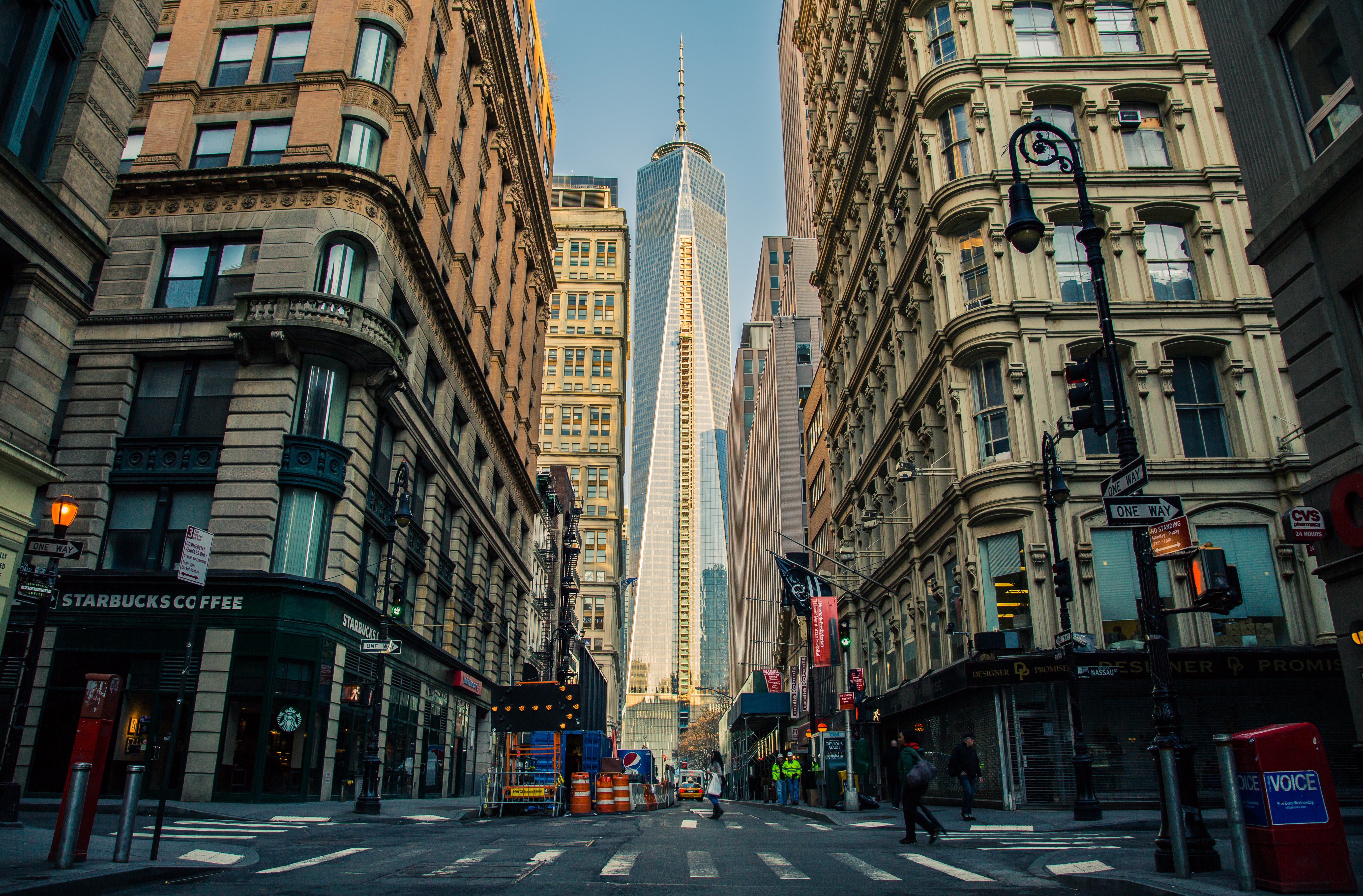 Freedom Tower, view from the streets.